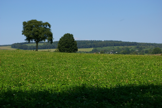 Clover field Just on the outskirts of Yarpole with Bircher Common in the distance.